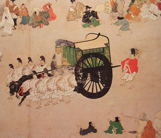 Japanese oxcart.